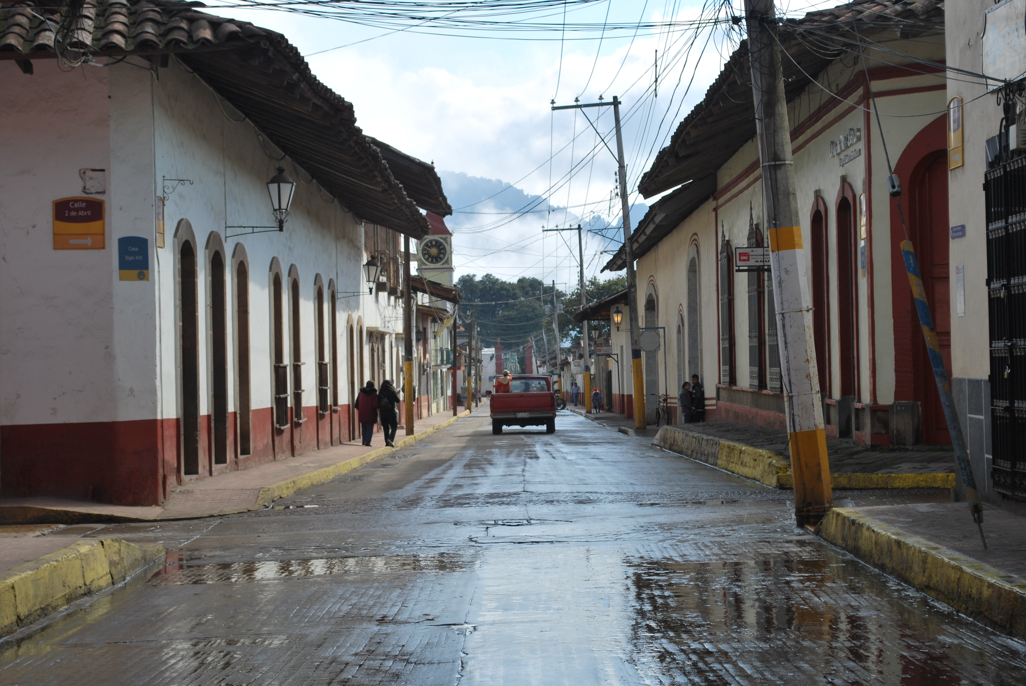 Jose Dolores Perez street in Zacatlán, Puebla, Mexico